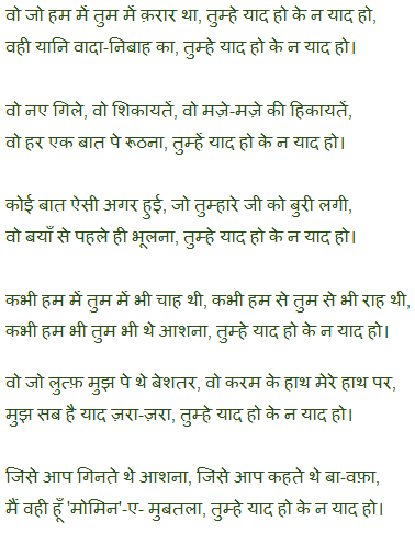 Momin Khan Momin's (1800-1851 AD) famous ghazal in Devnagri script.